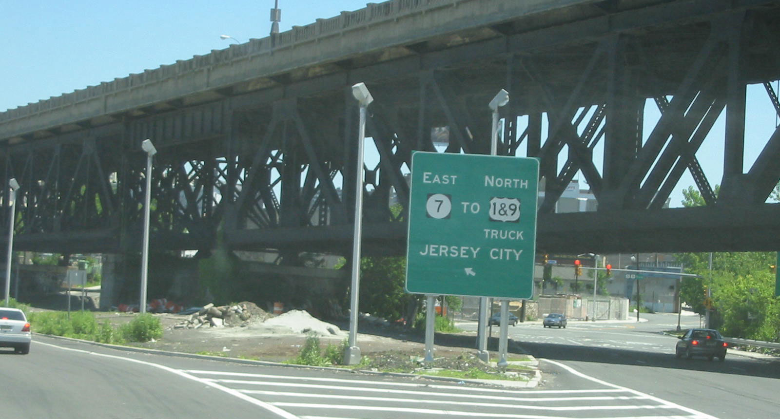 New Jersey State Highway 7 east at its end at TRUCK US 1/TRUCK US 9, with a view of the underside of the Pulaski Skyway. Photo taken May 30, 2004 by User:SPUI.